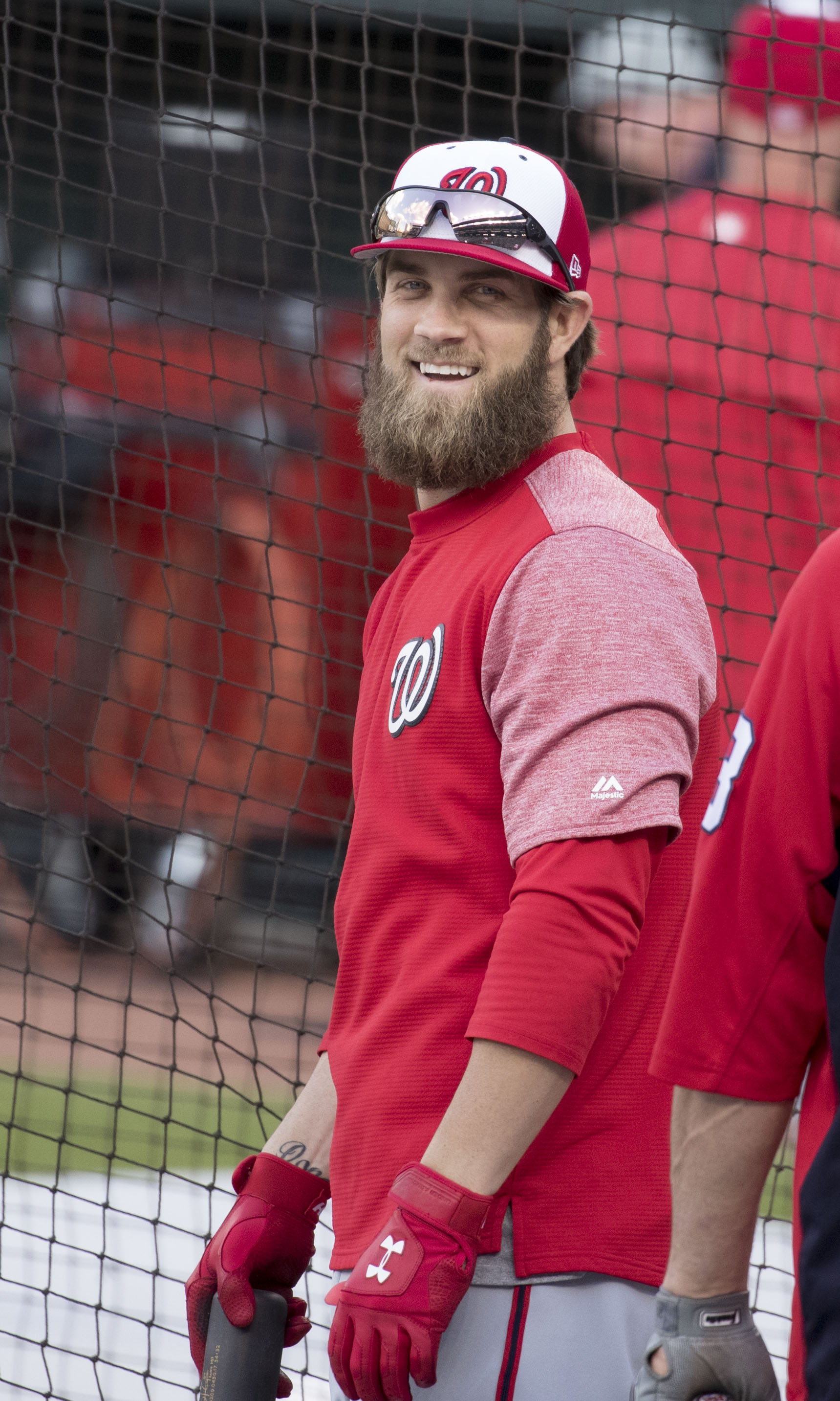 Nationals at Orioles 5/8/17